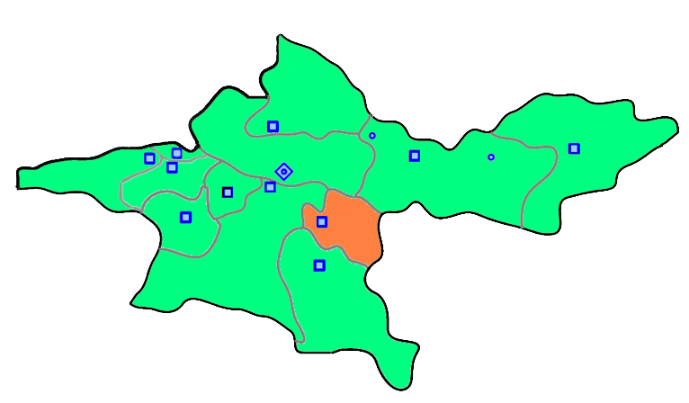 Pakdasht county of the Tehran Province in Iran. Taken from: and edited by Mani Parsa.